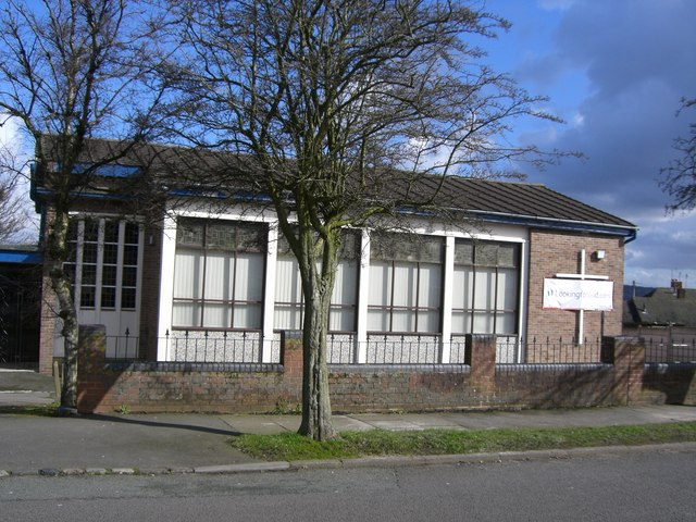 Wesley Hall Methodist Church, Noblett Road, Sneyd Green, Stoke-on-Trent, Staffordshire, seen from the southwest